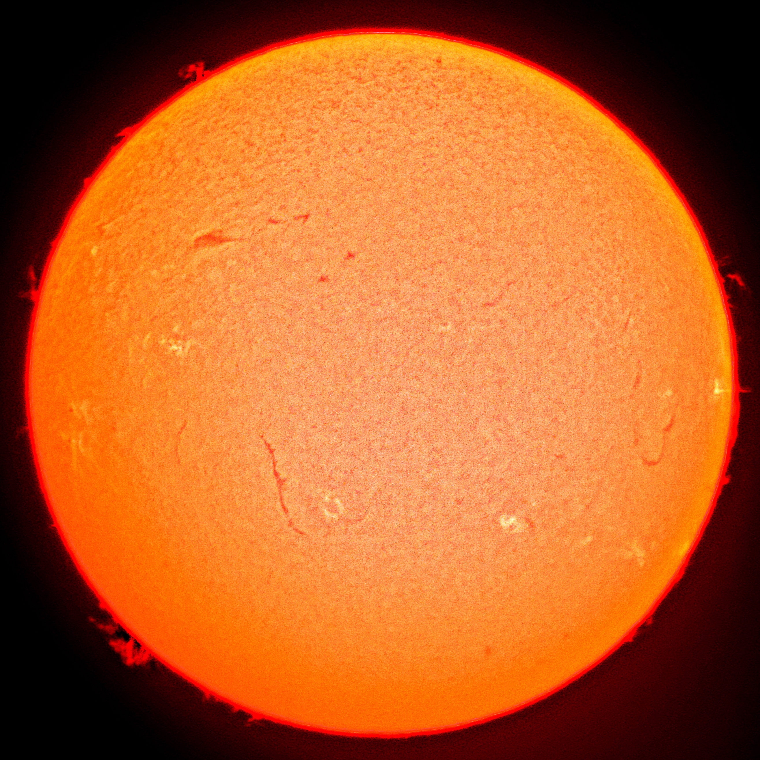 Sun on February 18, 2015. Taken with Canon 60d, Coronado PST, 20mm eyepiece, Vixen Polarie, 1/8 second, iso 400, HDR wavelets in Pixinsight and sharpening in GIMP.